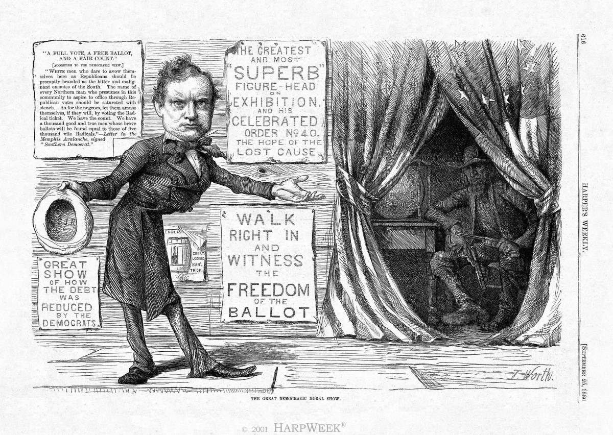 The Great Democratic Moral Show (September 1880), by Thomas Worth